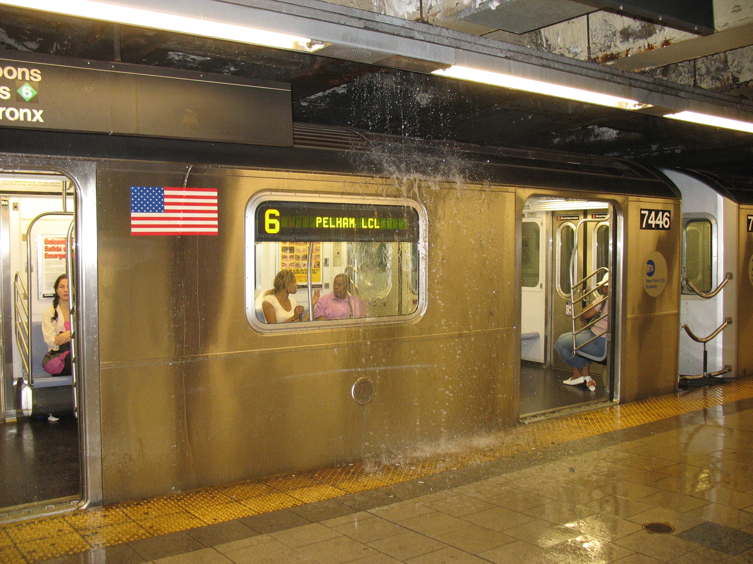 Water penetration at Brooklyn Bridge–City Hall station, IRT Lexington Avenue Line showing the aging of New York's underground infrastructure, in this case a lack of sealing and engineering deficiencies of the drainage system.